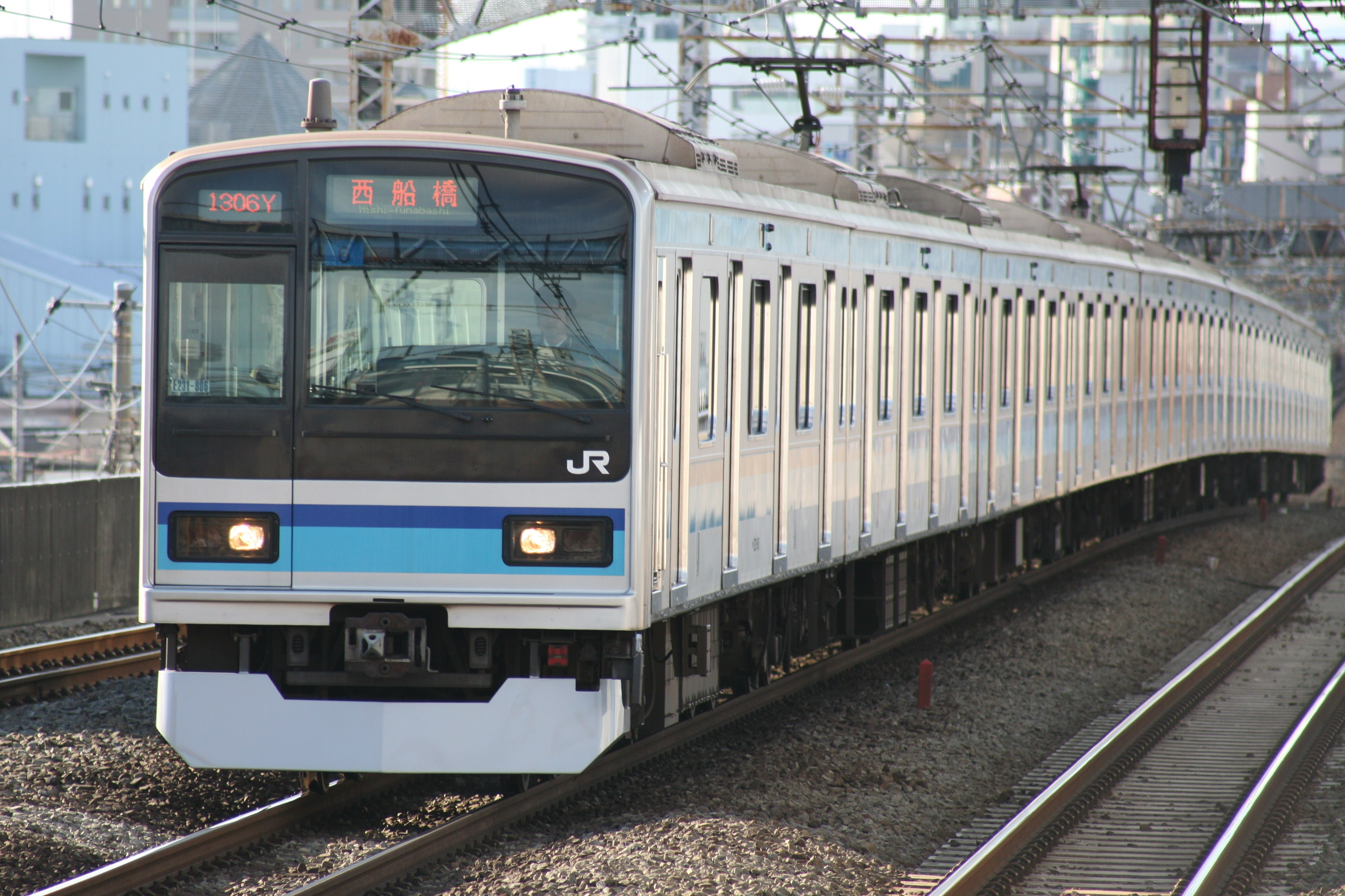 JR East E231-800, with new pilot (At Koenji Station)